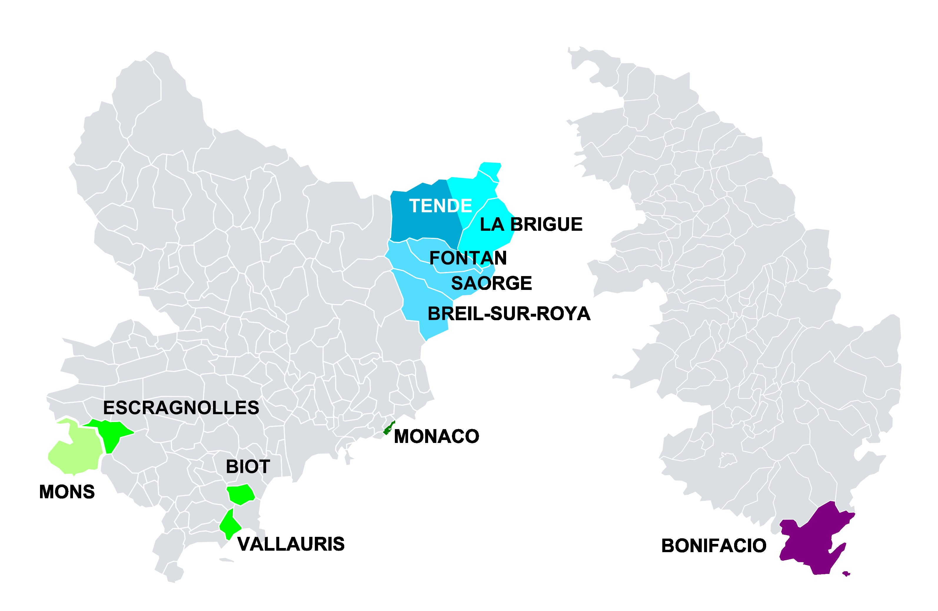 Distribution of ligurian dialects in France